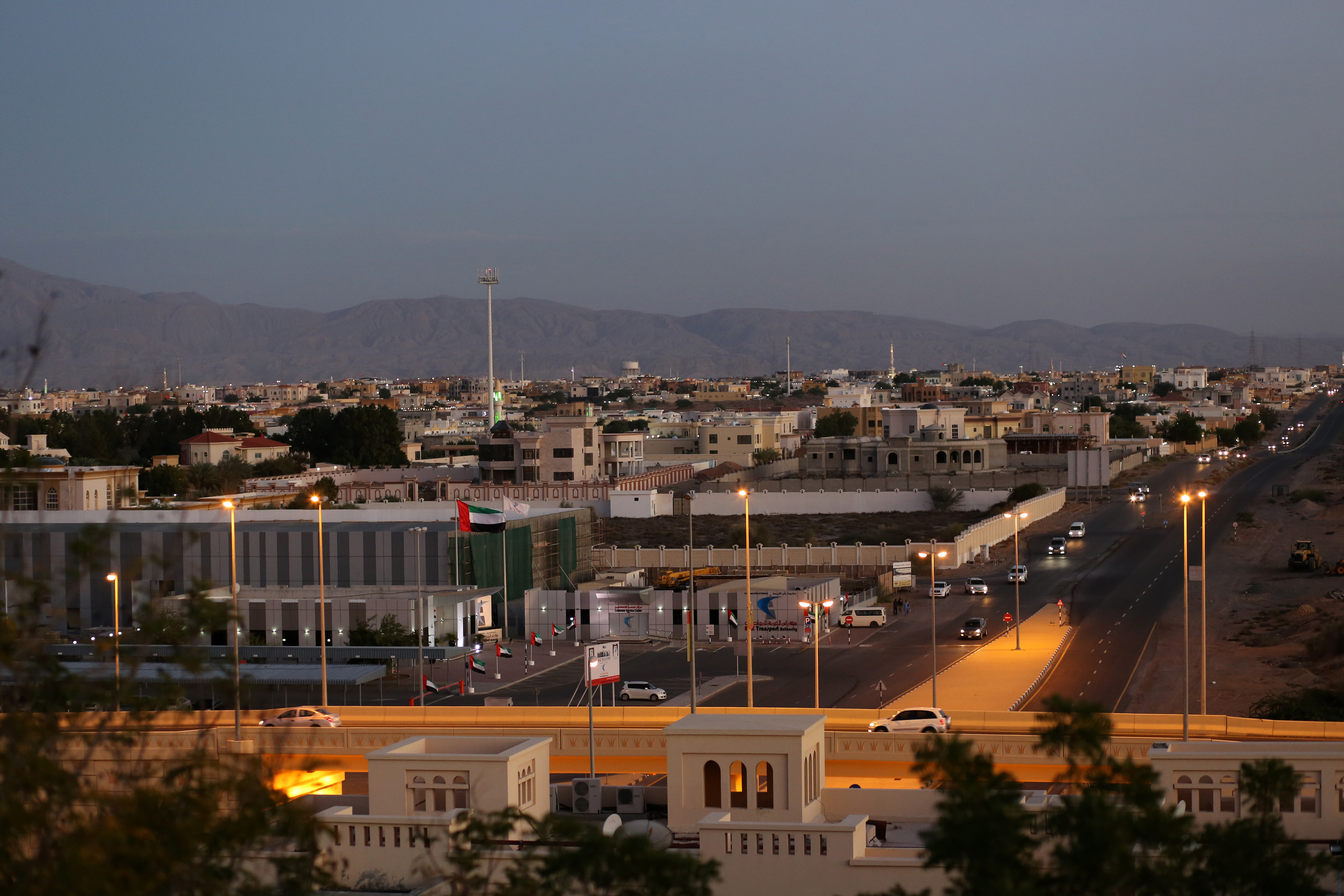 Ras al-Khaimah City in the evening